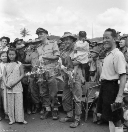 Brigadier Selwyn Porter and other Australian officers from 24th Brigade at Beaufort, Borneo in 1945